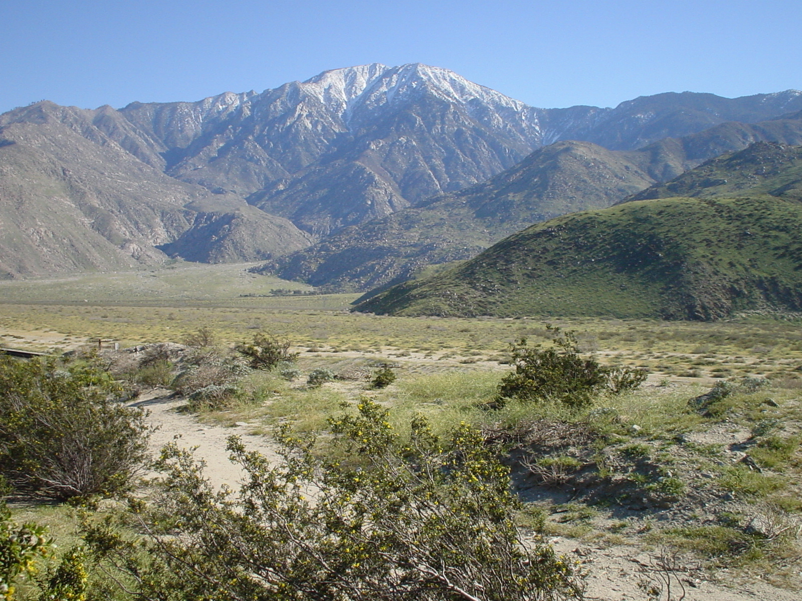 The North face of San Jacinto Mountains, the northernmost of the Peninsular Ranges, in Riverside County, Southern California. From right to left the named summits in this picture are: Folly Peak, 10,480+ feet, San Jacinto Peak, 10,804 feet, Miller Peak, 10,400+ feet, and Cornell Peak, 9750 feet. Protected within the Santa Rosa and San Jacinto Mountains National Monument, and the San Bernardino National Forest. The steep escarpment of its north face climbs over 10,000 feet (3 km) in 7 miles (11.3 km). It is the steepest escaprtment in North America. Snow Creek can be seen as the snow-filled gully reaching to the summit. The lower reaches of Snow Creek belong to the Palm Springs Water District, which strictly enforces a ban on trespassing. Taken on March 30, 2003.